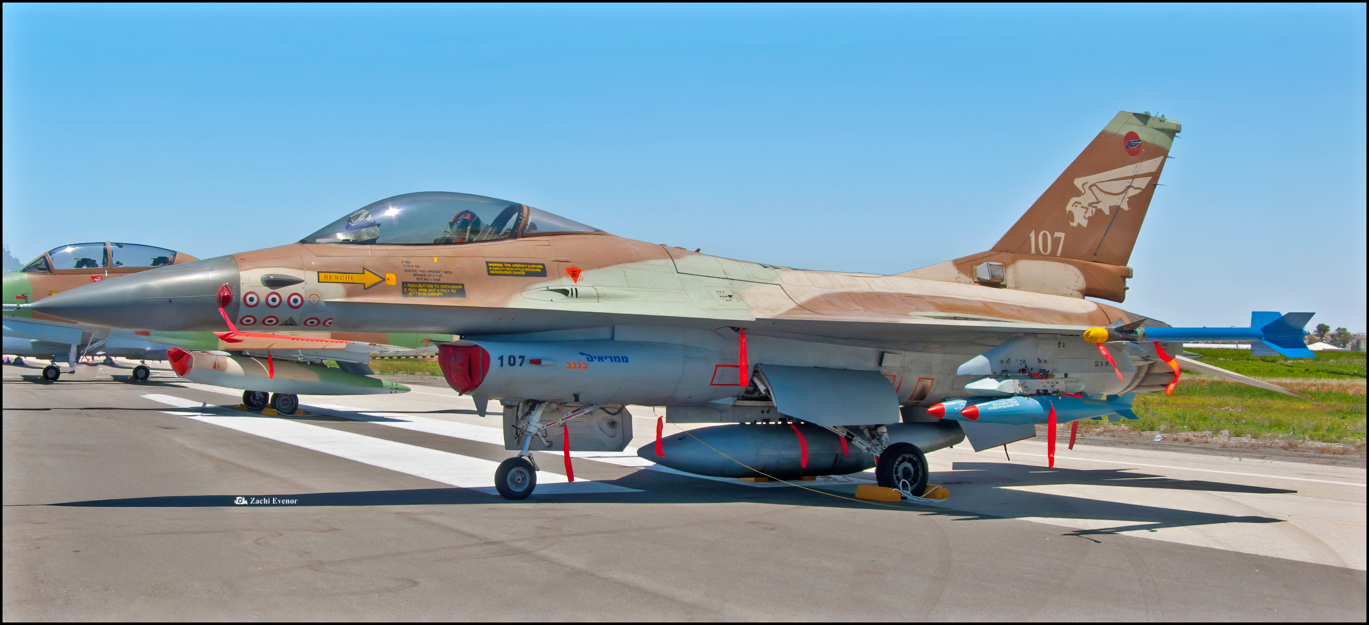 This is a F-16A Netz number 107 of the Israeli Air Force. The Netz 107 has an unmatched combat record in the IDF: it bombed the Iraqi nuclear reactor in 1981, and in 1982 it shot down 7 enemy fighter jets (one was a joint interception with another Israeli fighter). The 6.5 killing marks that the F-16 107 Netz makes it to be the F-16 fighter jet with the highest number of interceptions and shot downs in the world. Photo by Zachi Evenor and MathKnight, approved by the IDF censor.